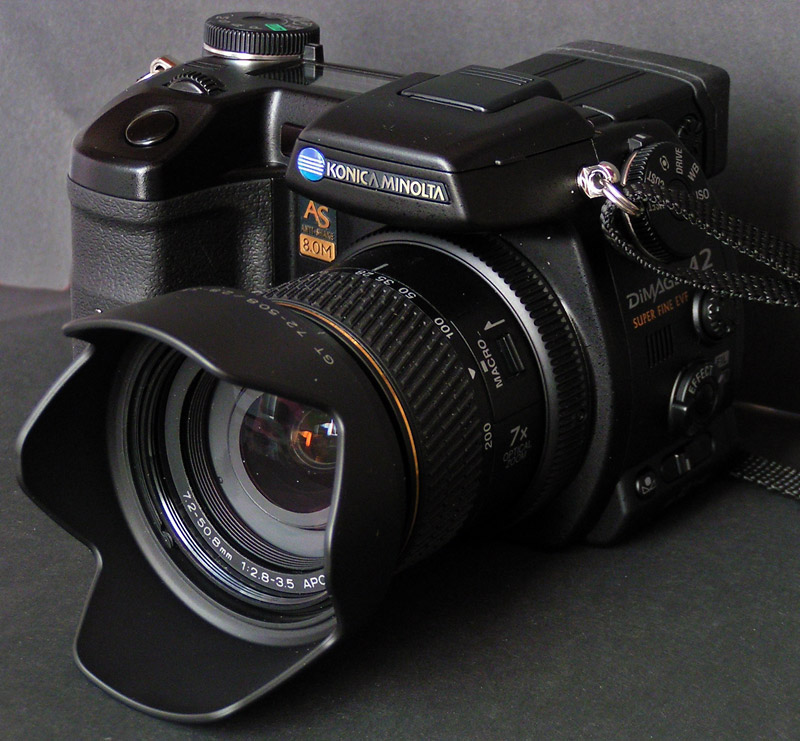 It comes from Deutsch Wiki.